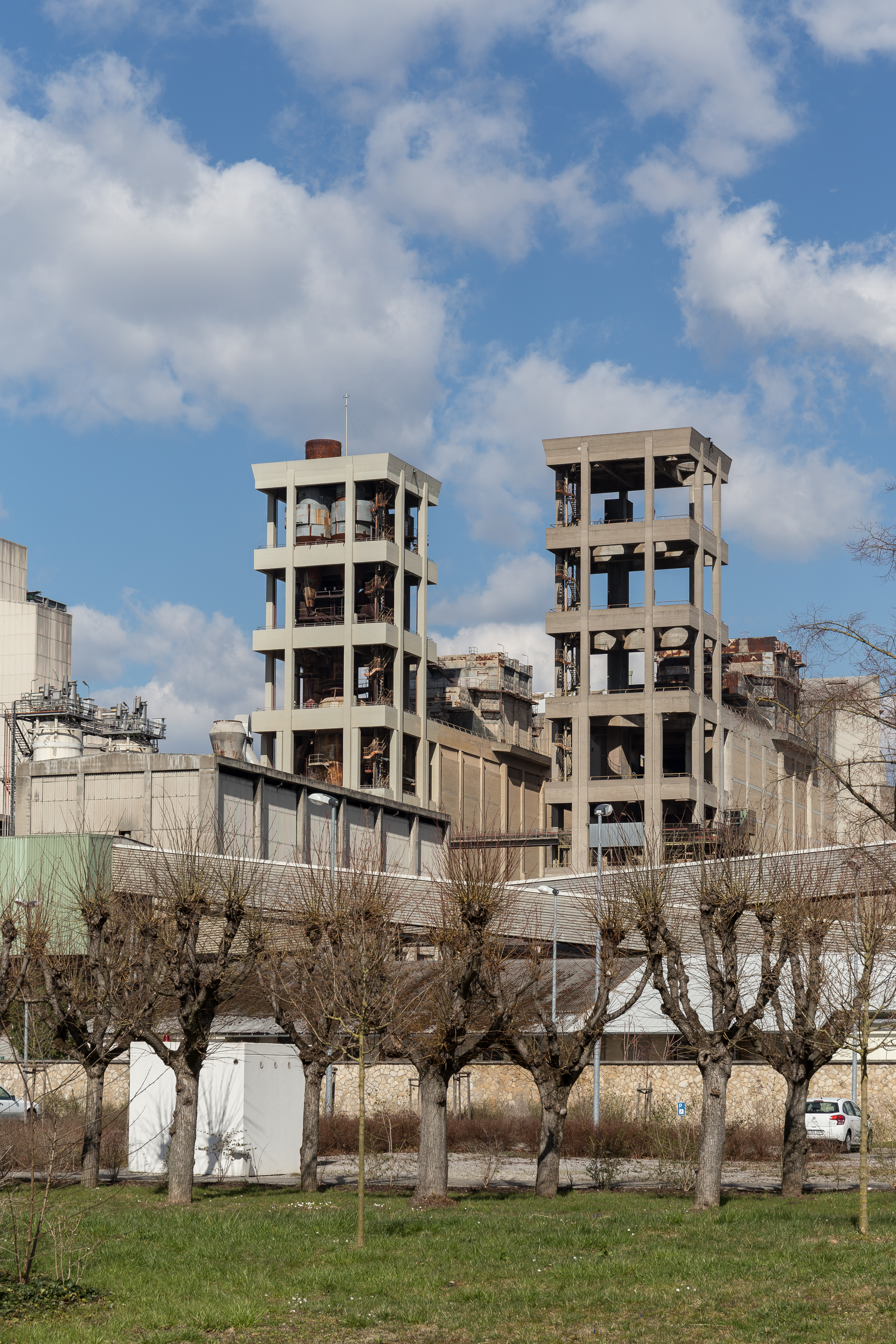 The heat exchange towers of Dyckerhoff cement plant in Mainz-Amöneburg.